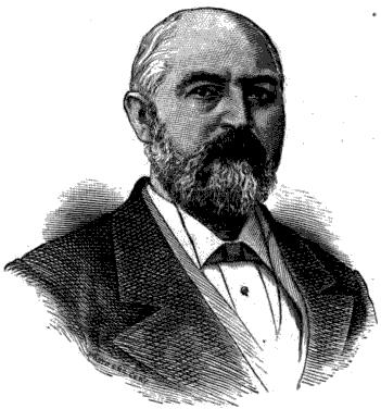 Drawing taken from page 270 of "Public Men of To-day", published 1882. Available on Google Books here